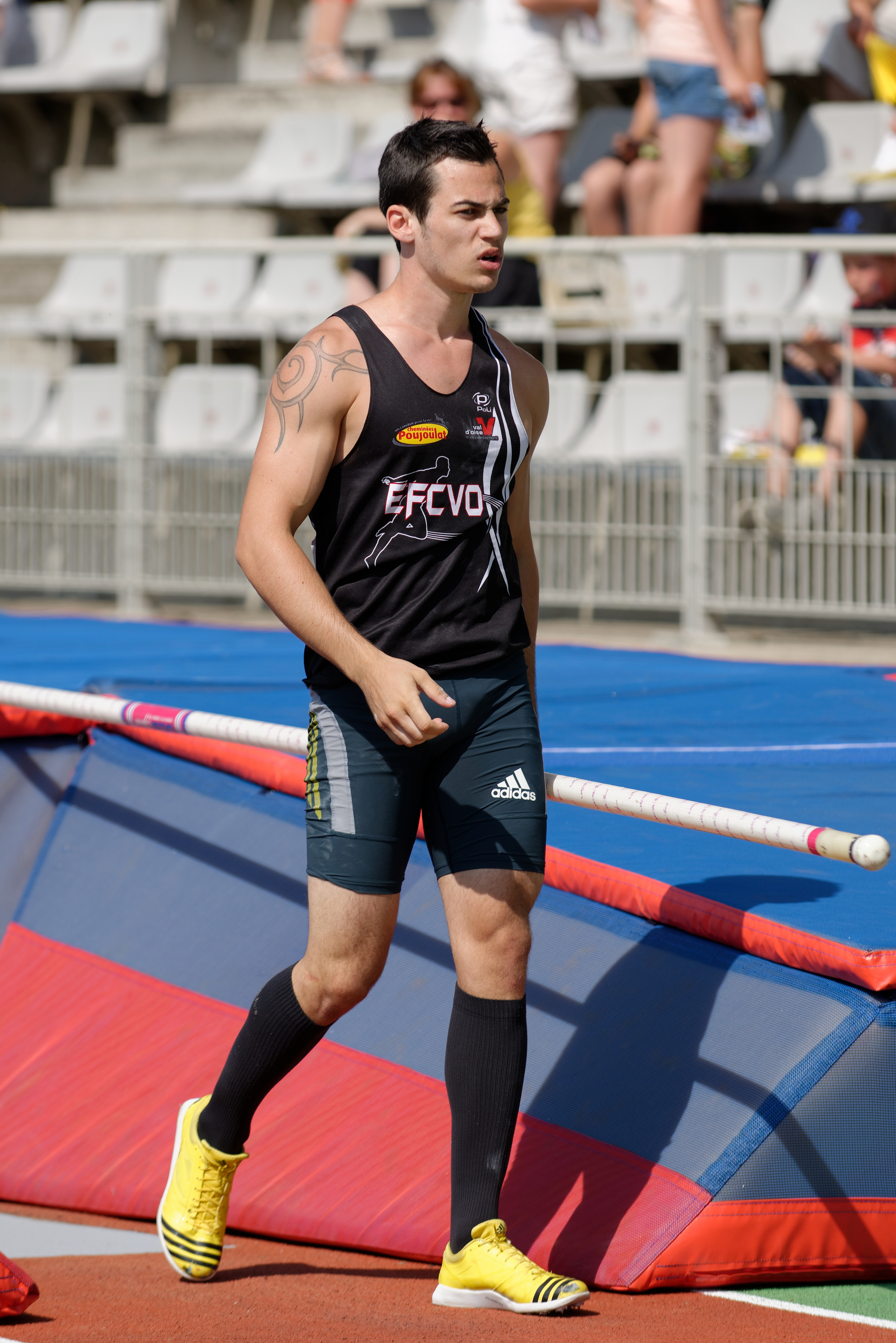 Kévin Menaldo competes in the men's pole vault final during the French Athletics Championships 2013 at Stade Charléty in Paris, 14 July 2013.